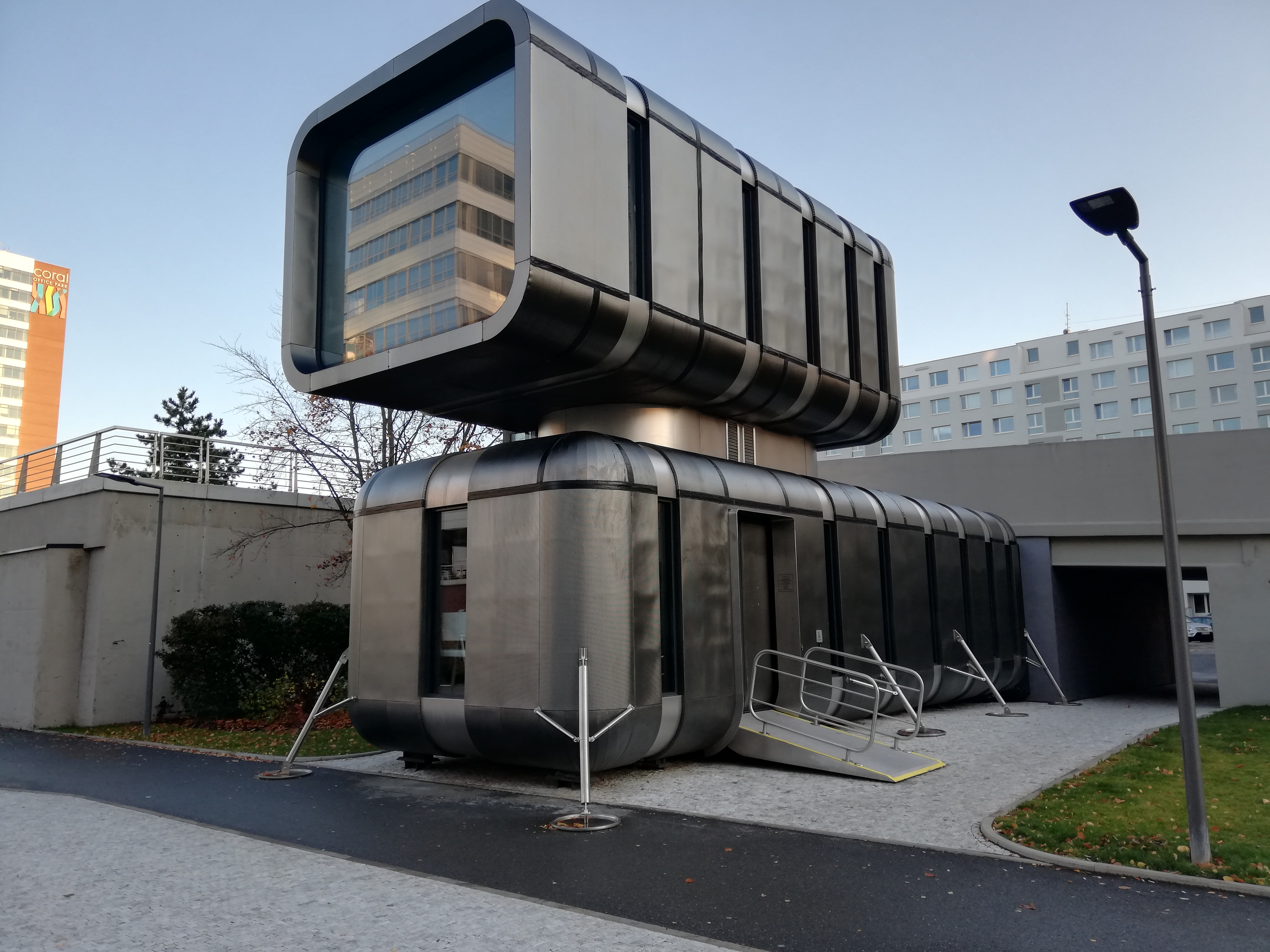 “Cyberdog” is a robotic wine bar located in Nové Butovice (Prague, Czech Republic). It is a project of the artist and sculptor David Černý and the architectural team of the Black n 'Arch studio led by architect Tomáš Císař. The building has been in operation since autumn 2018.